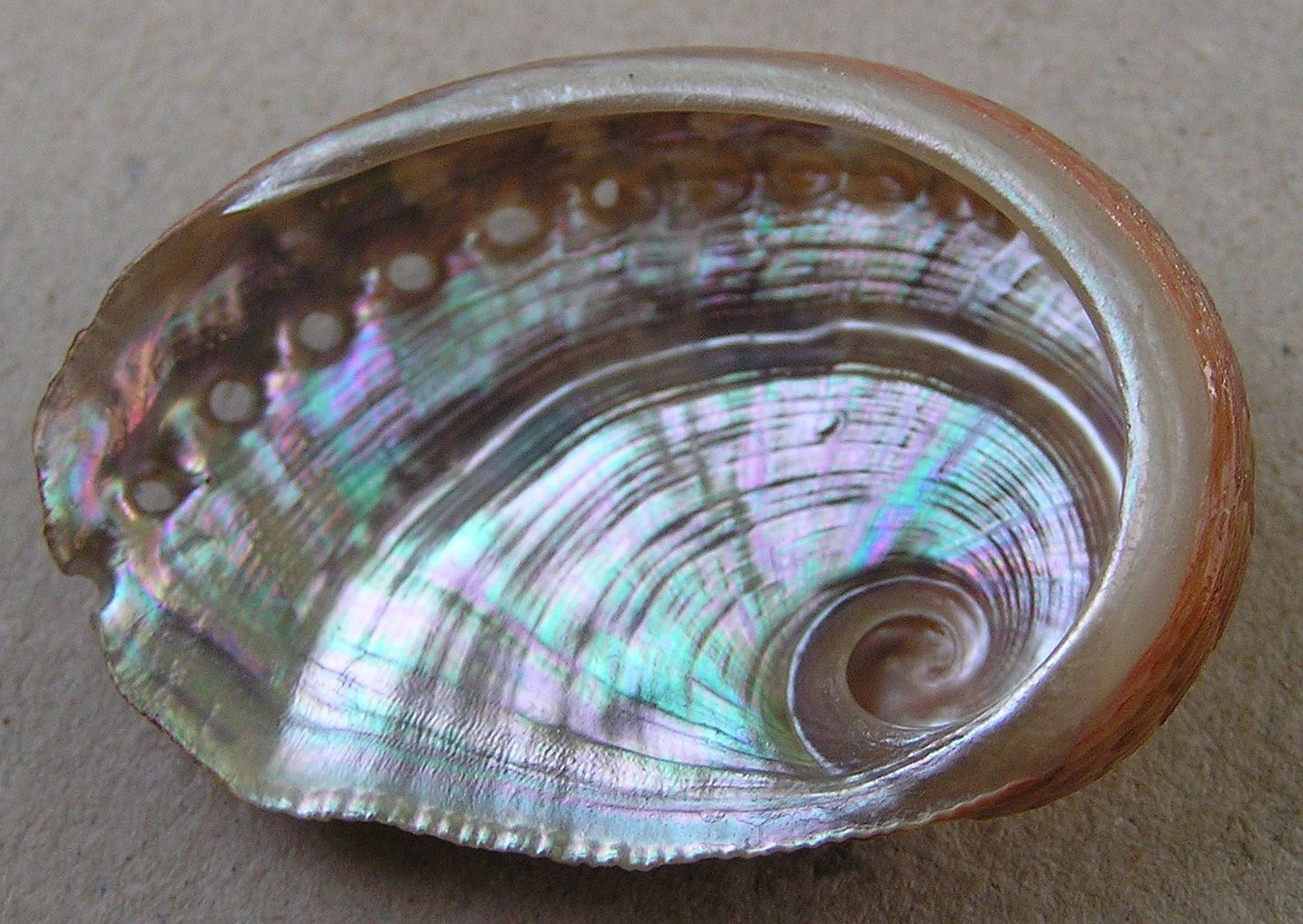 Haliotis parva Linnaeus, 1758; family Haliotidae; South Africa